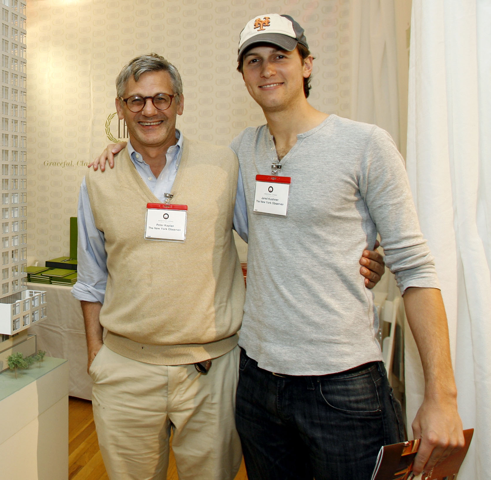 New York Observer owner and publisher Jared Kushner, right, and editor in chief Peter Kaplan, left, stand next to a model of the Upper East Side development, the Laurel, at the Observer Living: Condo Showcase in New York, Sunday, Sept., 21, 2008. The Showcase featured 50 developments throughout New York City. (Photo/The New York Observer/Stuart Ramson)